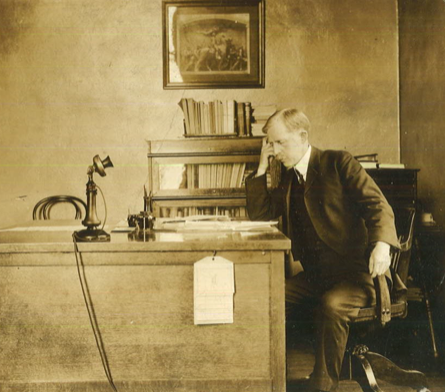 Dr. Fayette Avery McKenzie, in his office as President of Fisk University. Other information No.